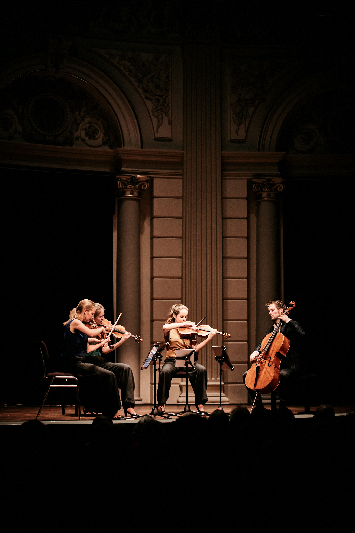 Photo of the Dudok Quartet Amsterdam, taken during a live concert in October 2019 by Eduardus Lee